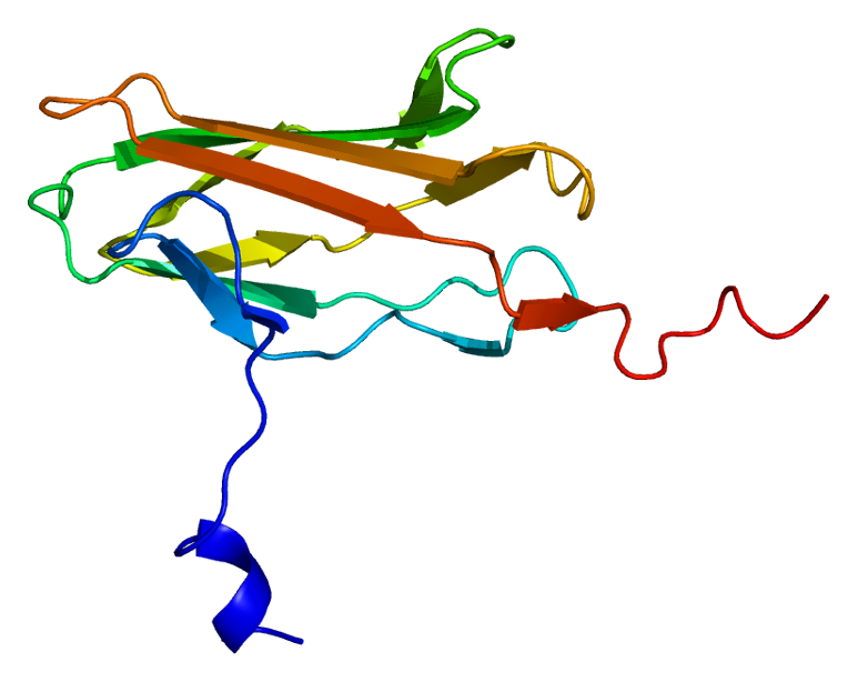 Structure of the RUNX3 protein. Based on PyMOL rendering of PDB 1cmo.